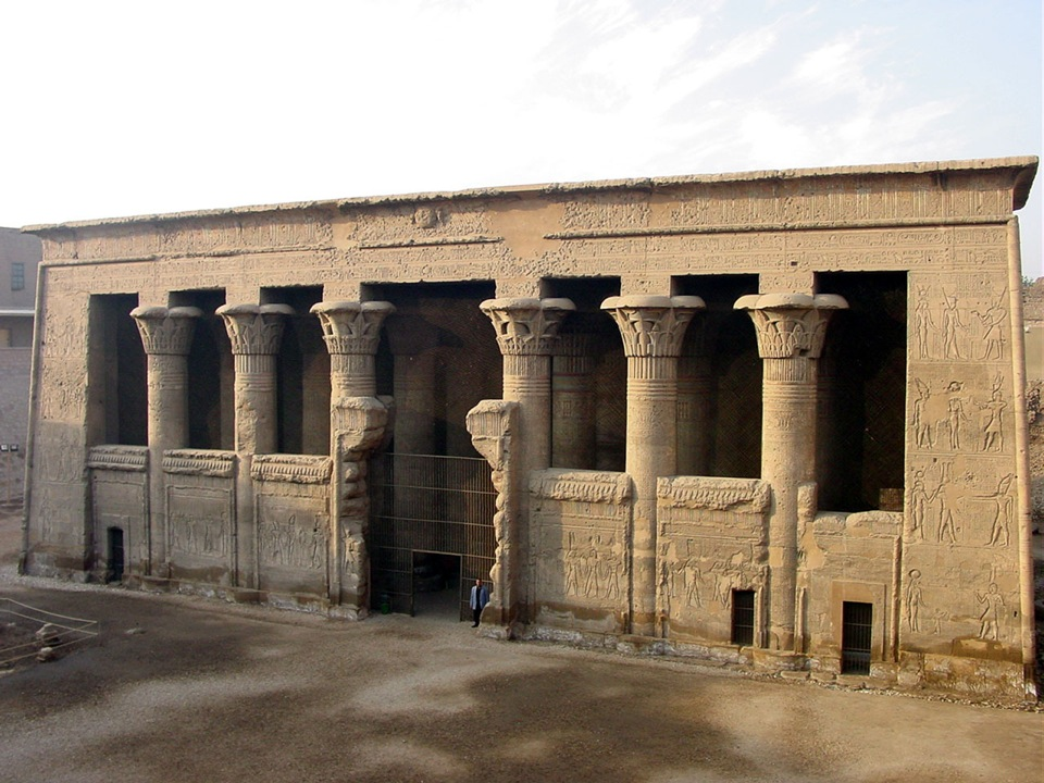 A view of the The Temple of Esna in 2004.